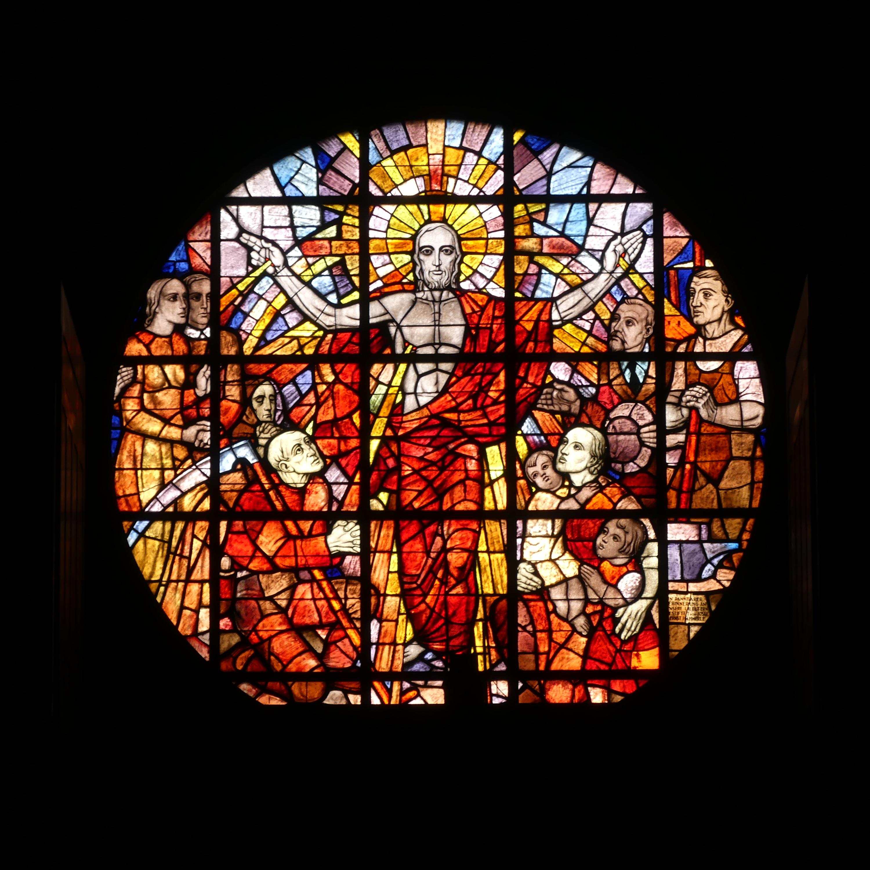 The big west side window above the main portal of the Redeemer Church in Lustenau depicts Jesus with open arms in front of the cross, surrounded by people of various social classes: a young couple, an old woman, a farmer with a scythe, a mother with two children, an elegantly clothed businessman, and a blacksmith with hammer and anvil representing craft workers.